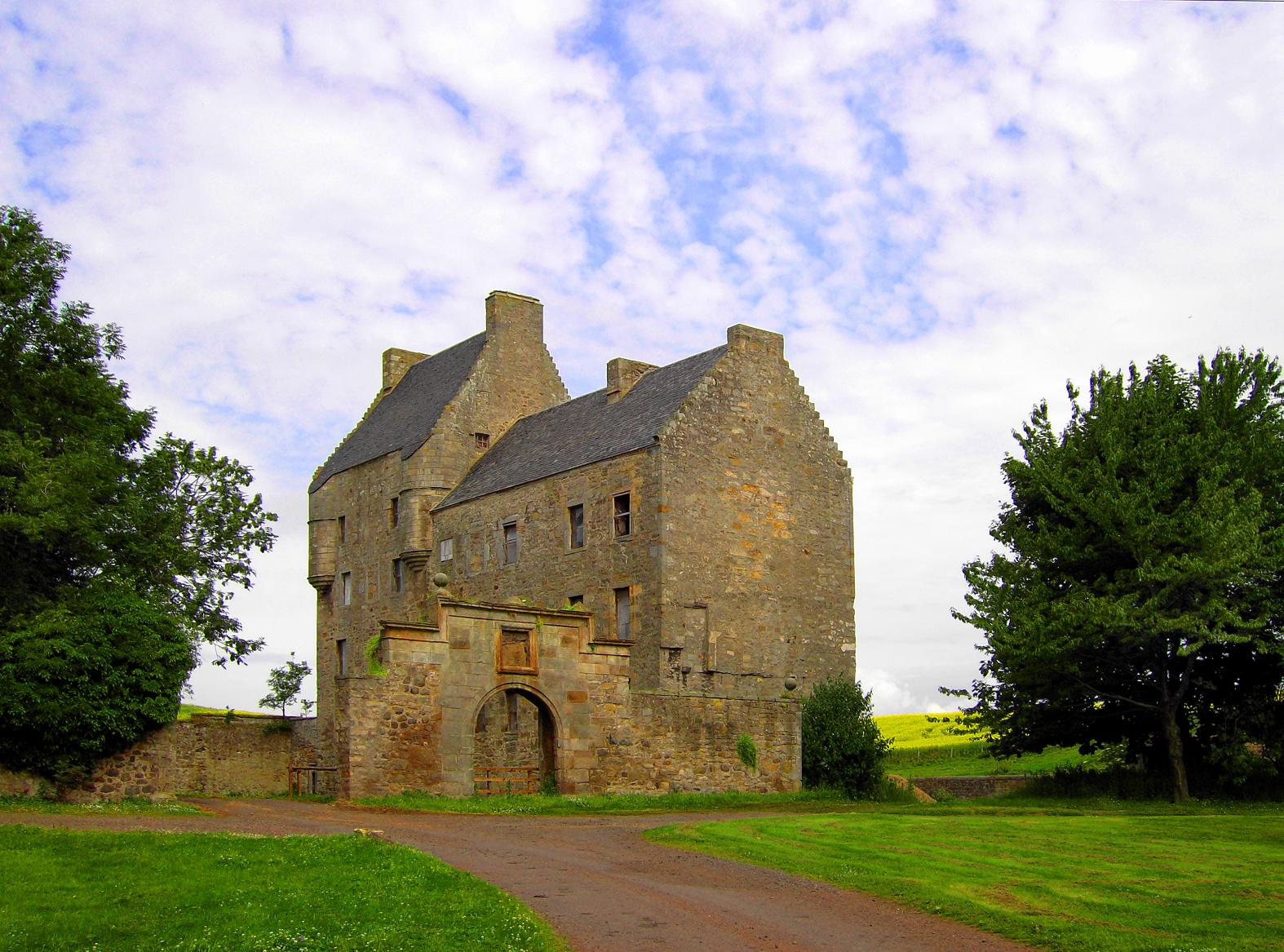 Midhope castle, general view.